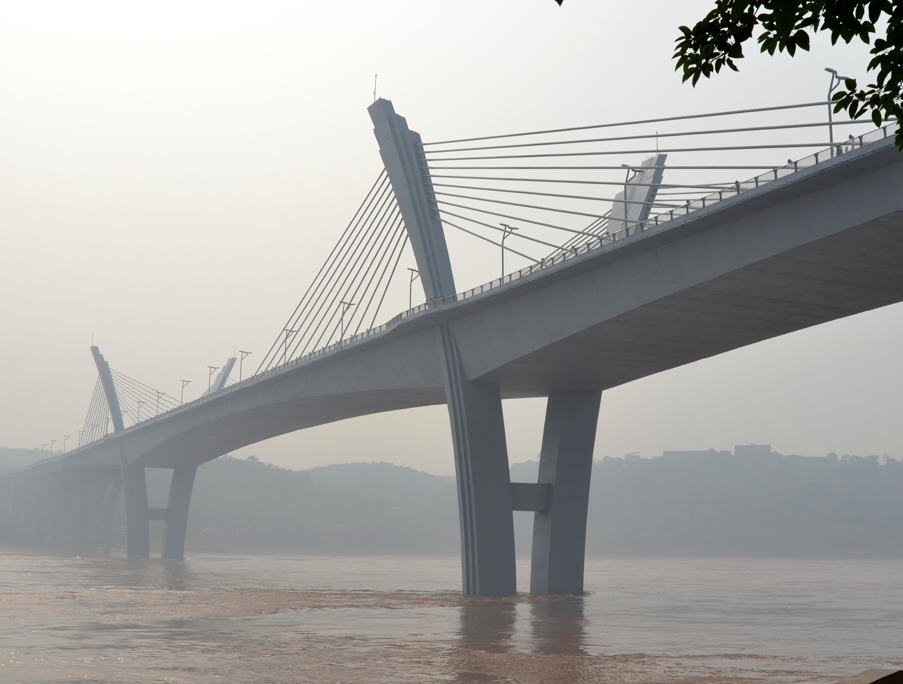 Qiancao Yangtze River Bridge